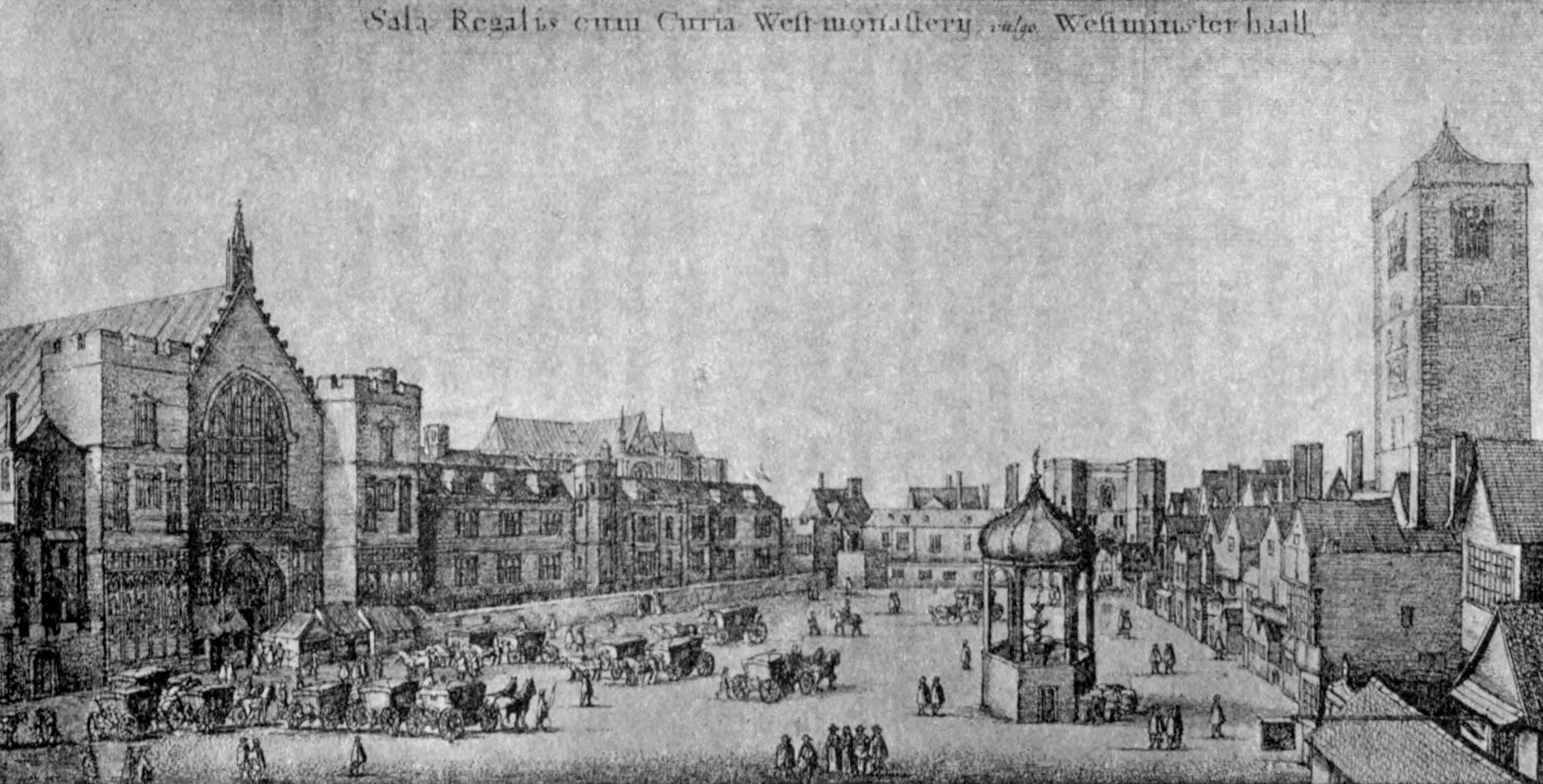 WESTMINSTER HALL AND OLD PALACE YARD. [Faukes, T. Winter, Rookward, and Keyes were executed in this yard.]